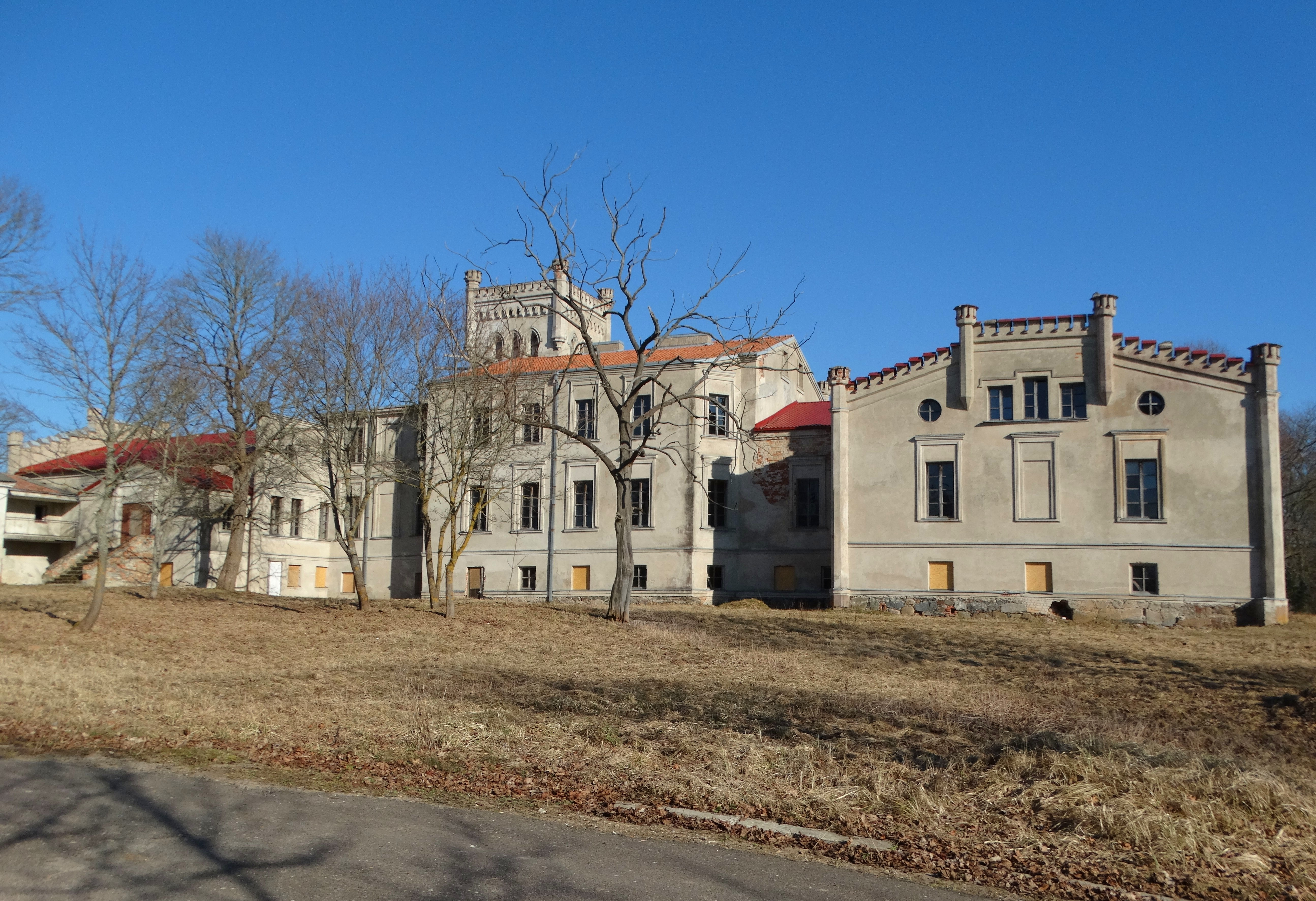 Beržėnai, manor, Kelmė District, Lithuania